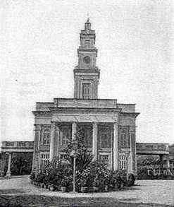 Magen David or Sha'ar Ha-Rahamin Synagogue, Bombay. End of the XIXth century, or begining of the XXth century.